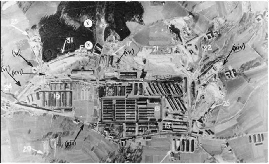 Aerial photograph of Gusen in 1945, labeled